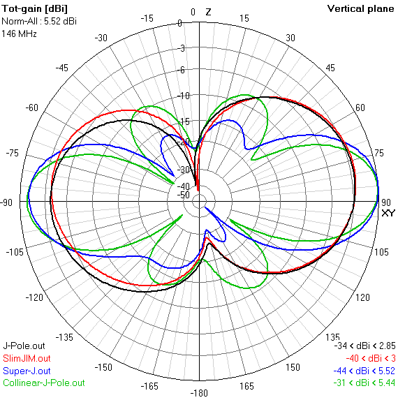 These antenna radiation pattern plots show the E-plane gain of four J antenna variations: J-pole, SlimJIM, Super-J and Collinear J. The polar graph outer ring is normalized to 5.52 dBi... the peak gain of the Super-J and Collinear-J variants. All four antennas have their J element to the right towards +90 degrees.